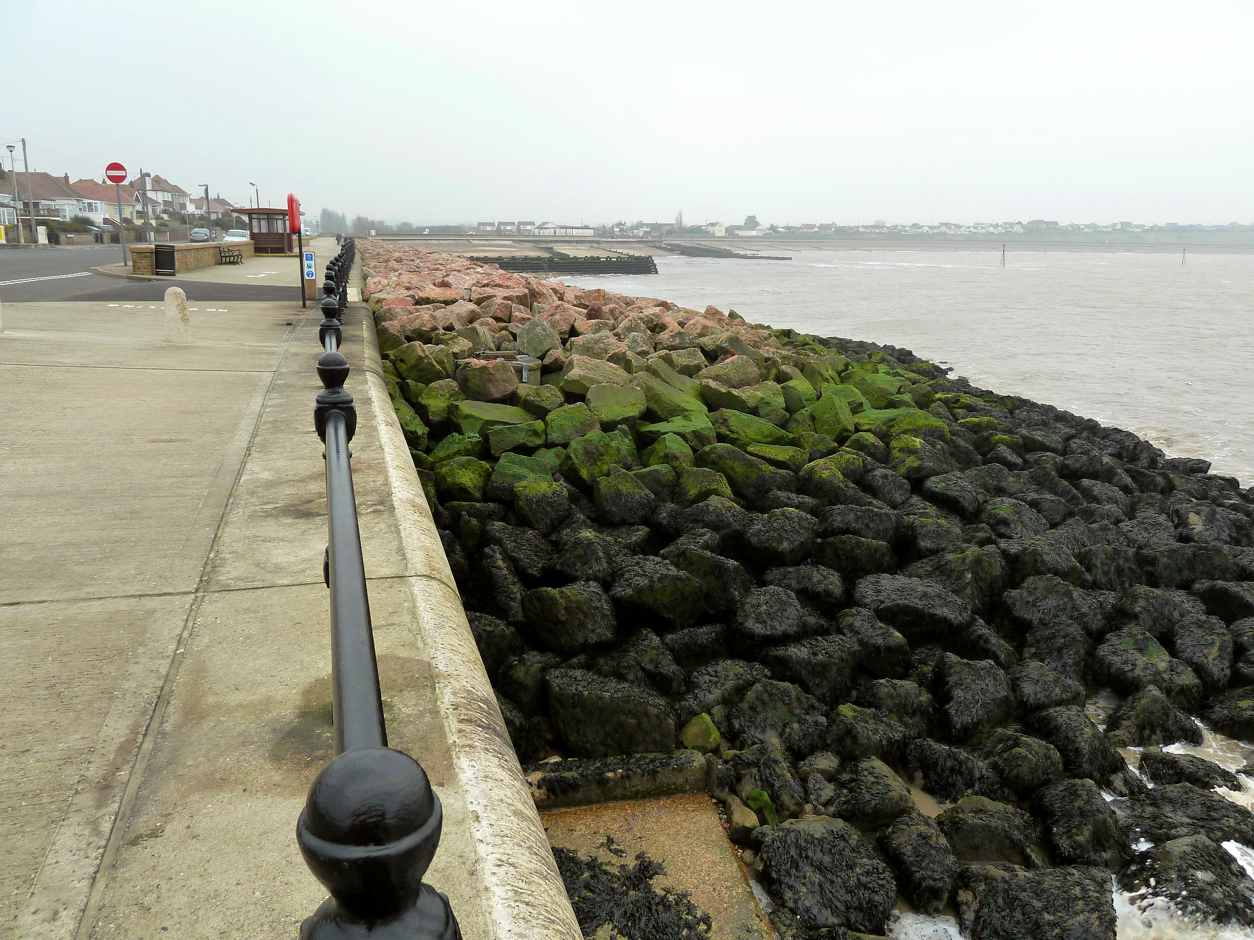 Rock armour revetment viewed looking south along Hampton Pier Avenue from the west side of Hampton jetty at Hampton-on-Sea, Herne Bay, Kent, England. This site features in Will Scott's 1955 children's book Half-Term Trail, but is described in the era before 1994 when the revetment did not exist. The rocks in the foreground conceal a set of steps which ran from the path at the top down the side of the wall in a northerly direction (towards the camera) down to the beach. The boy in Scott's story leaves the bus shelter (seen by the red lifebuoy along the road), descends by these steps and crosses the beach going towards the back of the bay where Westbrook flows onto the beach. The photograph was taken at half tide; it is possible to walk to the back of the bay from here at low tide. In the 1950s and 1960s children would often use these steps, although they were derelict and damaged by then.